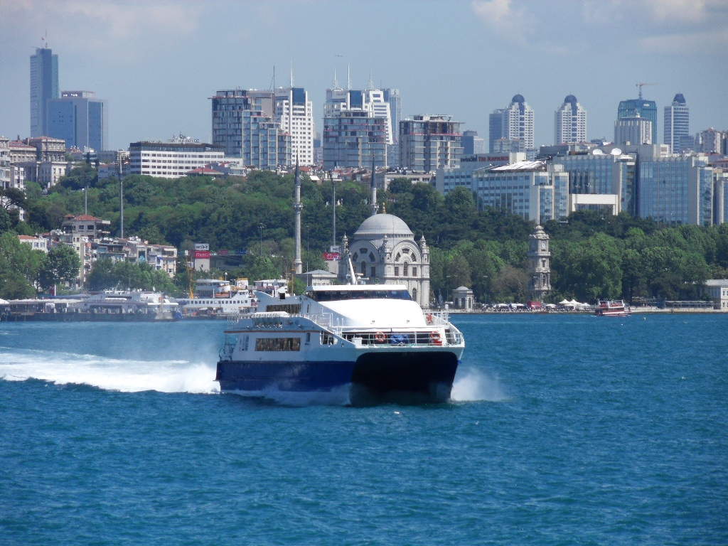 Catamaran ferry made by Austal for İDO in 1996, lenght 40 meters, top speed 34 knots, capacity 450 people, at the Bosphorus strait in Istanbul, Turkey. The Dolmabahçe Mosque and Dolmabahçe Clock Tower can be seen near the coastline, while the skyscrapers of Levent business district are seen further behind.